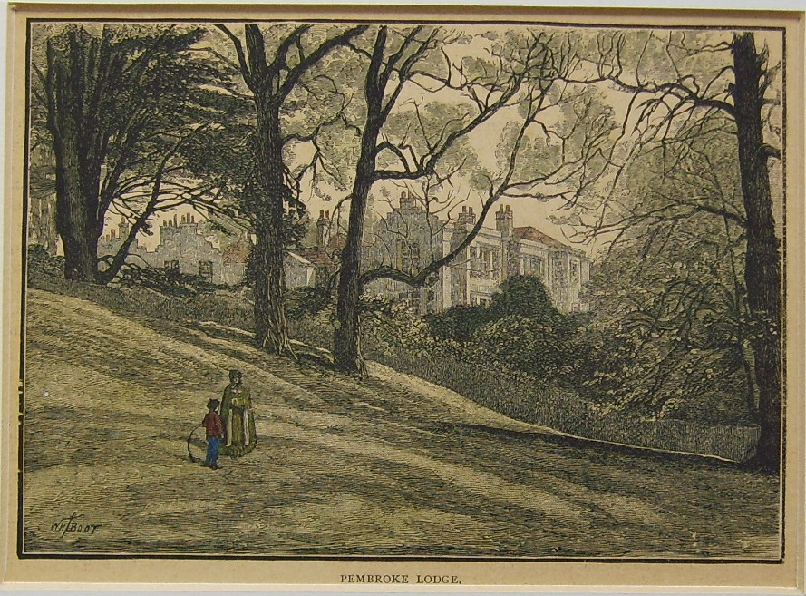 Scan of old print owned by myself